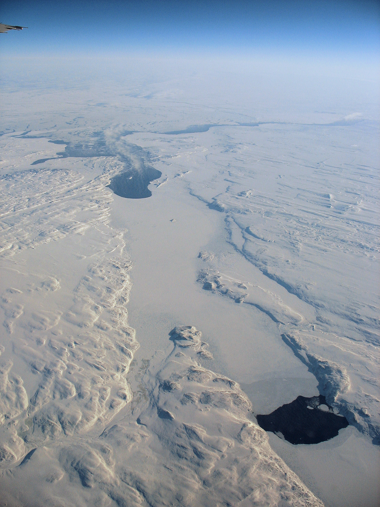 Payne Bay: mouth of the Arnaud River (formerly Payne River), northern Quebec, Canada. The Inuit village of Kangirsuk is faintly visible on the north (left) shore.